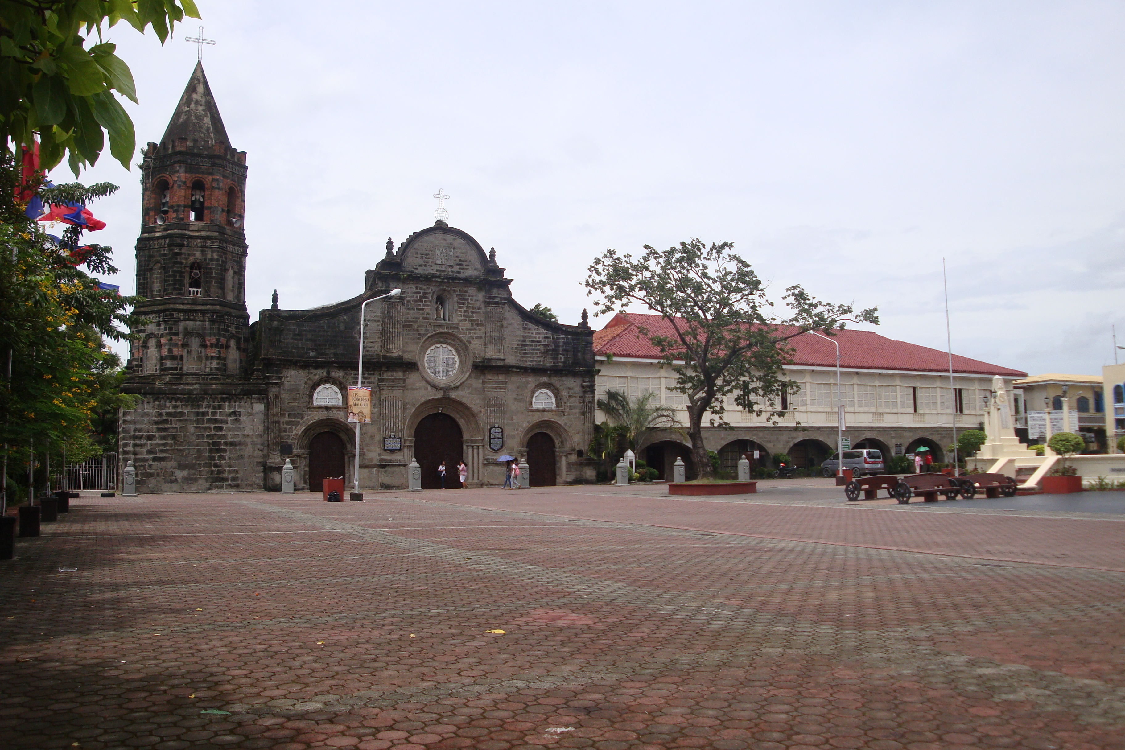 Aerial view of Barasoain Church, 2018.